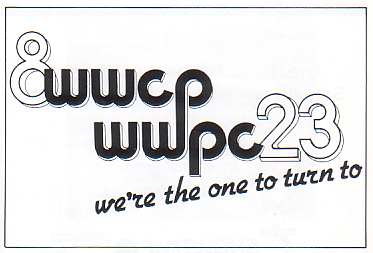 The joint graphic for WWCP and WWPC (now WATM) from the early 1980s when WWPC was a retransmission of WWCP's signal. Other information The image is only large enough to fairly represent the original work, and is from a partnership and branding that was abandoned over 20 years ago.